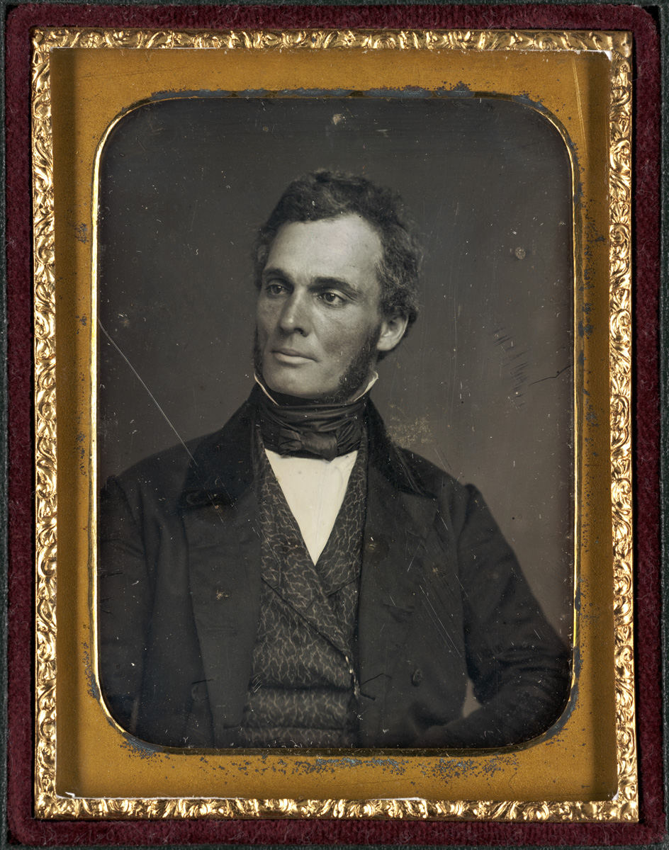 Daguerreotype photograph of Robert Purvis. Dimensions (in case): 11 × 8.5 cm (4.3 × 3.3 in). Original description by Boston Public Library: BPLDC no.: 07_05_000013 Call no.: Cab.G.3.115 Title: Robert Purvis Creator: Date: 1840-1849 (approximate) Publisher: Extent: 1 photograph : quarter plate daguerreotype ; in case 11 x 8.5 cm. Genre: Daguerreotypes; Portraits Notes: Subjects: Abolitionists Purvis, Robert, 1810-1898 BPL Department: Rare Books Department